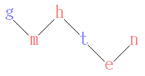 shows the family relations (parents above children; female: pink; male: light blue) assumed in the rlgg example in "inductive logic programming" article